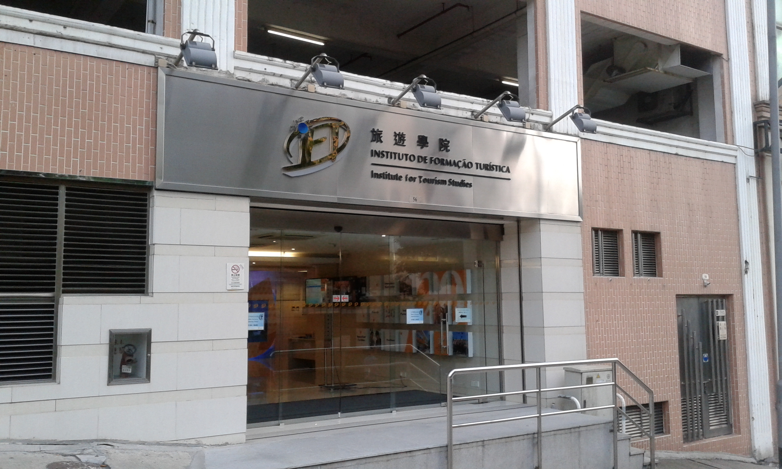 IFT Taipa